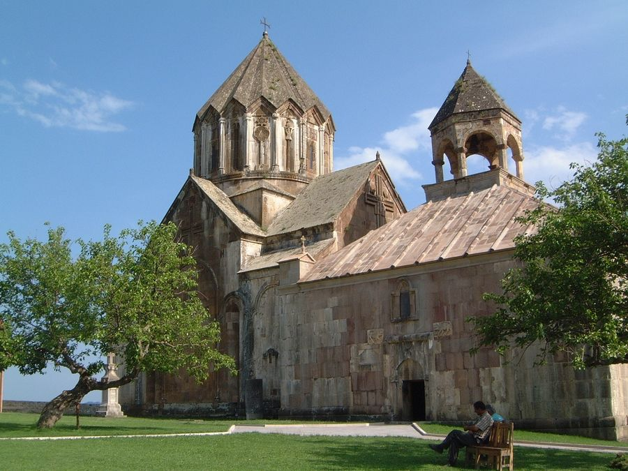 Gandzasar